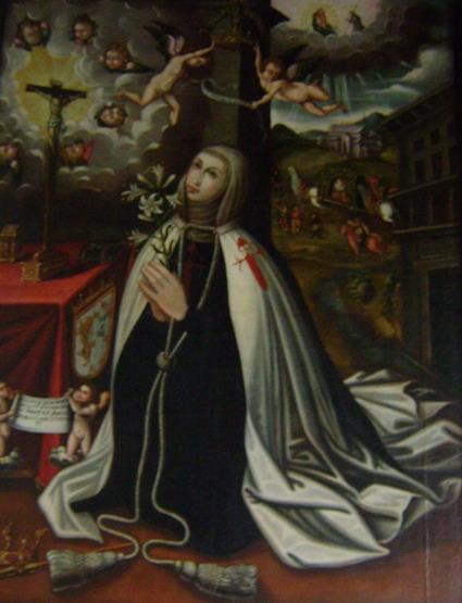 Venerated Sancha Alfonso, with the Order of Saint James' habit, Painting of 17th cent. at Monastery of the order at Toledo